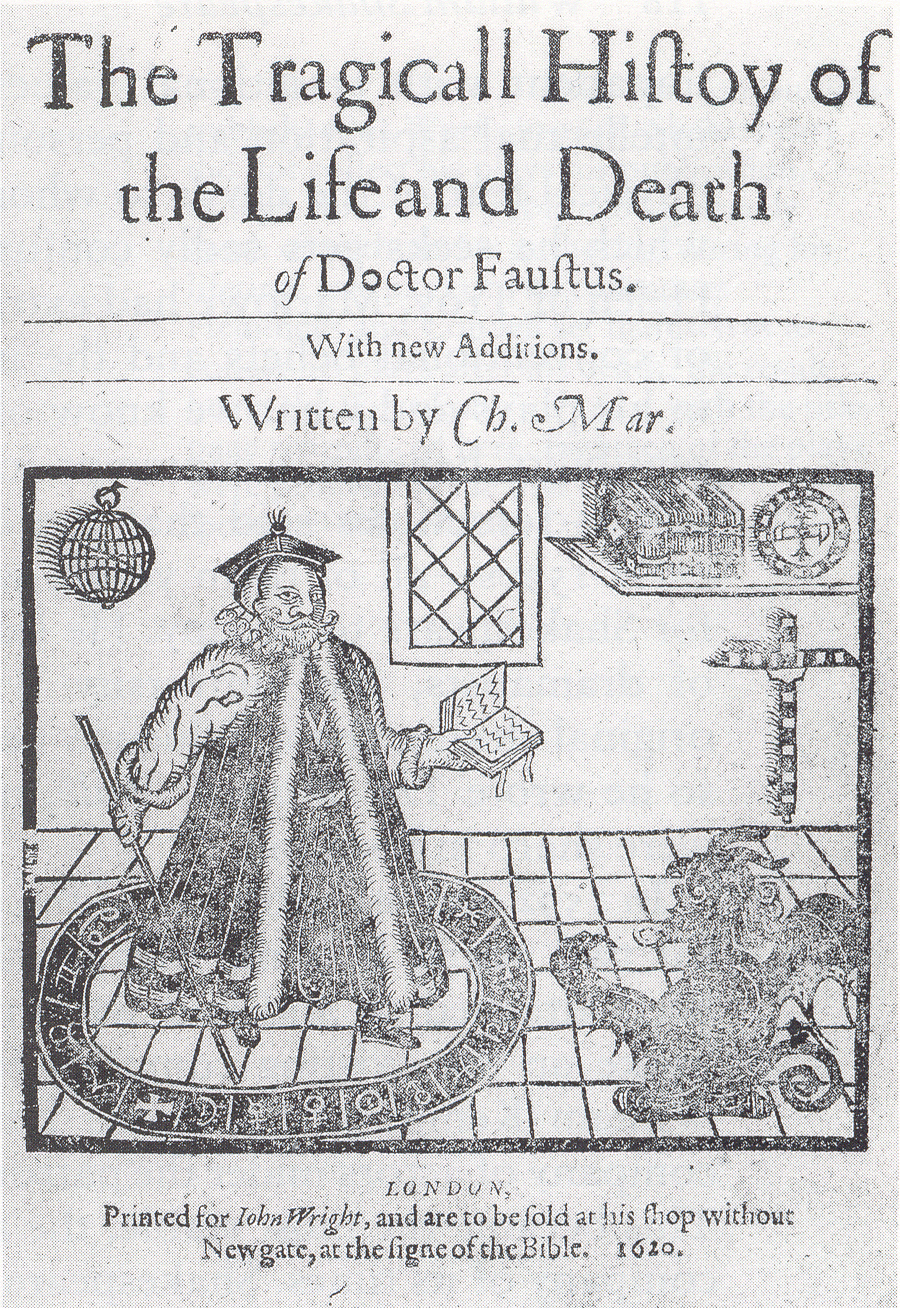 Title page of a late edition of Christopher Marlowe's Doctor Faustus, with a woodcut illustration of a devil coming up through a trapdoor.